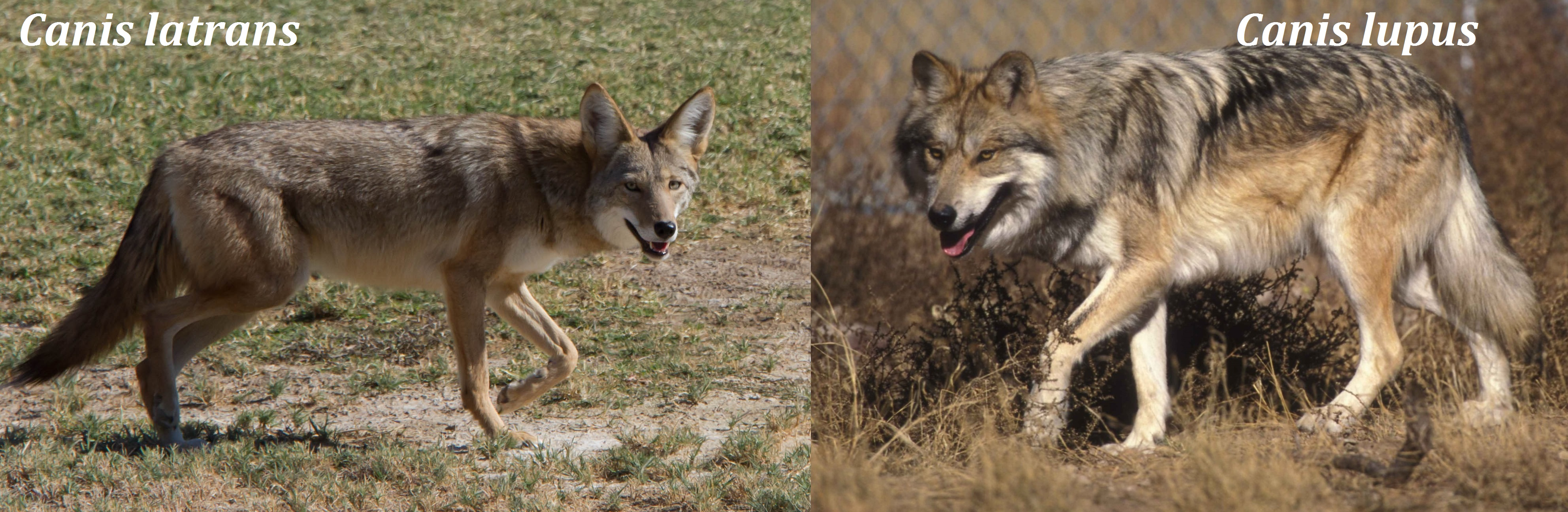 Comparative image of gray wolf and coyote